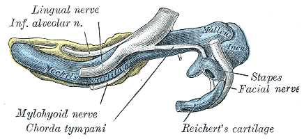 Mandible of human embryo 24 mm. long. Inner aspect. (From model by Low.)